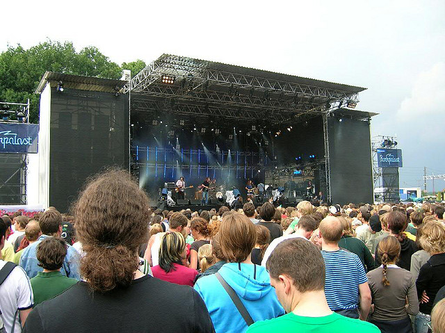 Haldern Pop Festival 2006